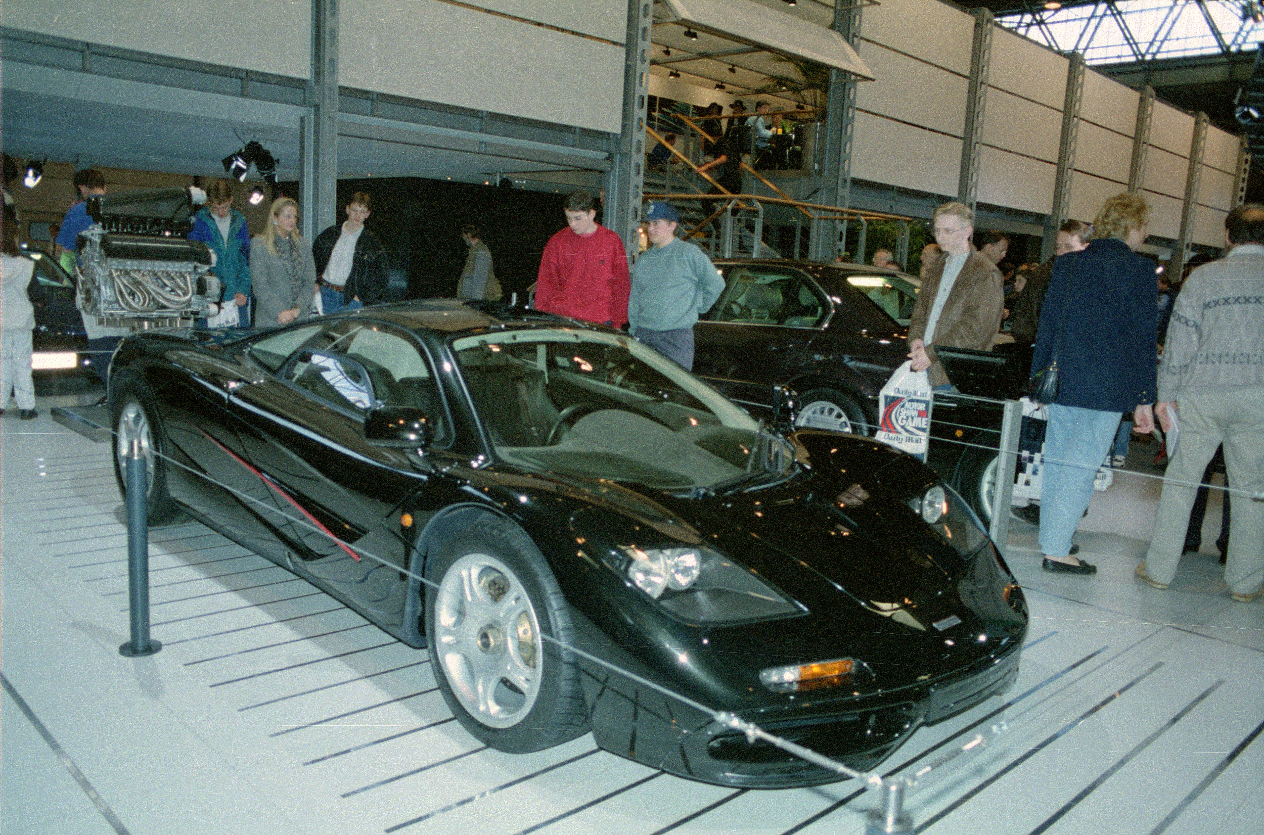 McLaren F1 at the British Motorshow, 1994